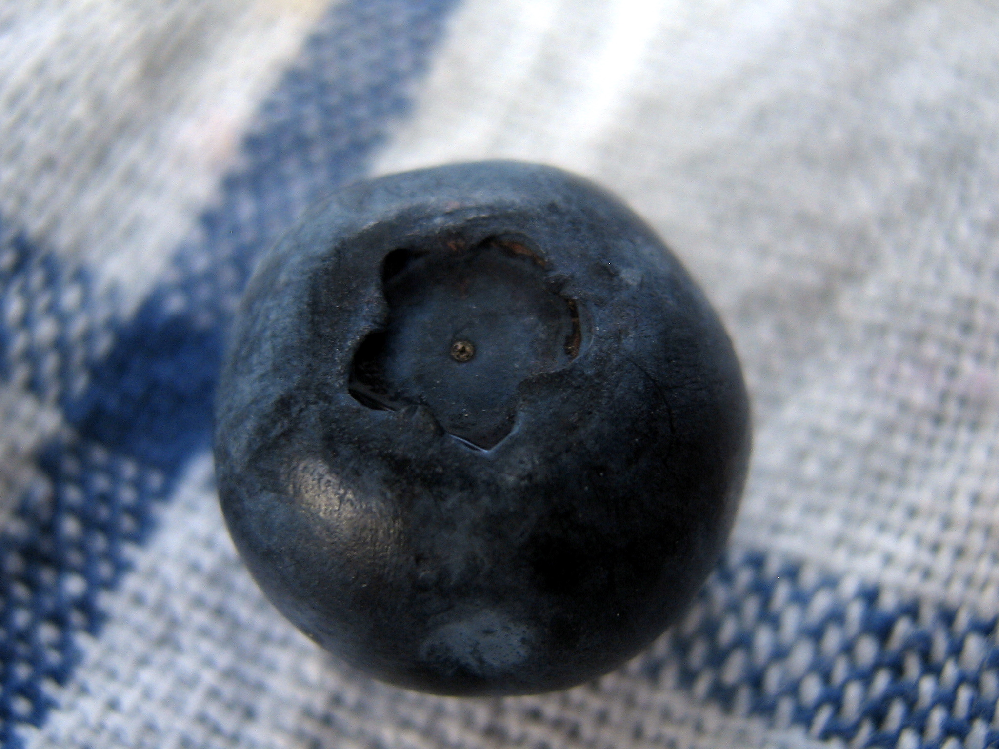 Another high-resolution, macro-mode picture of a blueberry. The picture was touched up using the "I'm Feeling Lucky" feature in Picasa.